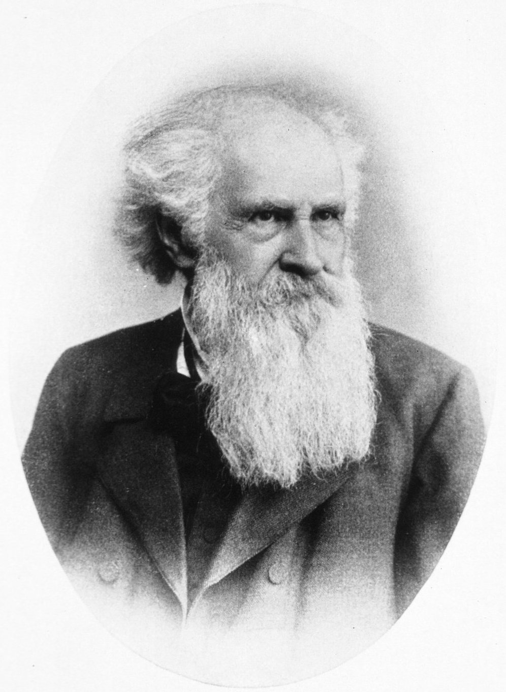 Franz von Leydig (May 21, 1821 – April 13, 1908)